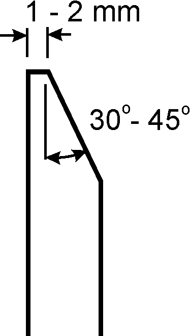 thin-plate weir edge